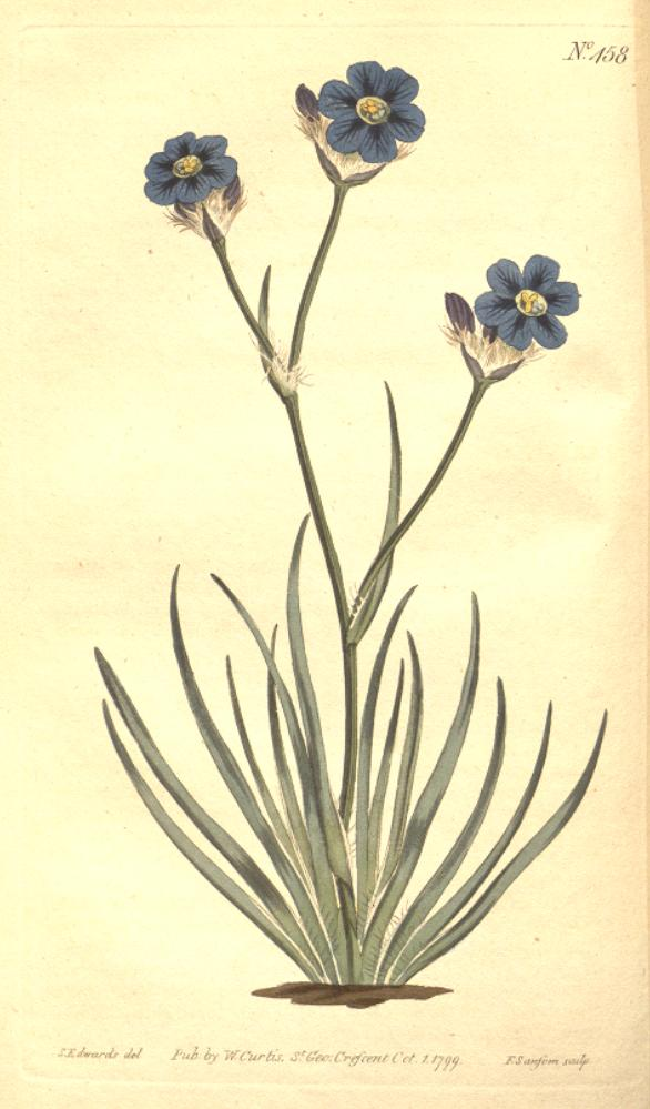 Illustration of Aristea cyanea